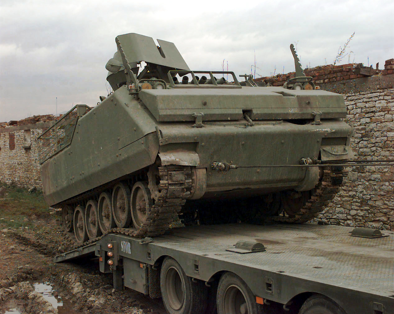 A Royal Netherlands Army (Dutch/Holland) YRP-765 Armored Personnel Carrier (APC) to an SFOR marked flat bed trailer unit in preparation to haul the APC from Camp Dobol, Bosnia-Herzegovina, back to the Dutch sector. US Army TF 1-26 soldiers confiscated this YRP-765 APC from a Serbian Army weapons storage site near Zvornik, Bosnia-Herzegovina, and returned it to the Dutch at Camp Dobol. The Dutch and US Army forces are in Bosnia participating in Operation Joint Endeavor, which is a peacekeeping effort by a multinational Implementation Force (IFOR), comprised of NATO and non-NATO military forces, deployed to Bosnia in support of the Dayton Peace Accords. ID: DDSD0000633 Service Depicted: Other Service 970317A1972C008 Operation / Series: JOINT ENDEAVOR